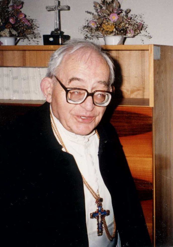 premonstratesian abbot Bohumil Vít Tajovský aged 83 years, on the celebration of the 950th anniversary of foundation of Benedictin monastery (~1045 AD); 1. october 1995 in Rajhrad near Brno (Czech Republic).